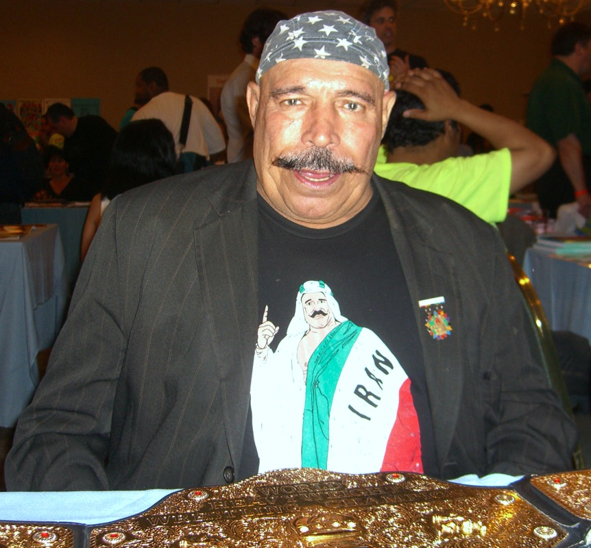 Professional wrestler Iron Sheik at the Big Apple Summer Sizzler in Manhattan, June 13, 2009.